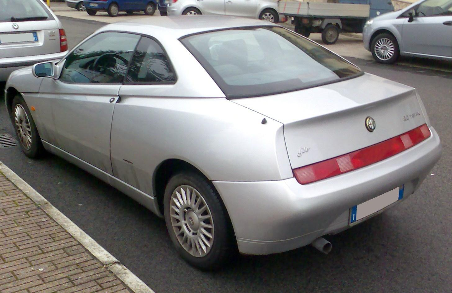 2000 Alfa Romeo GTV 2.0 TS